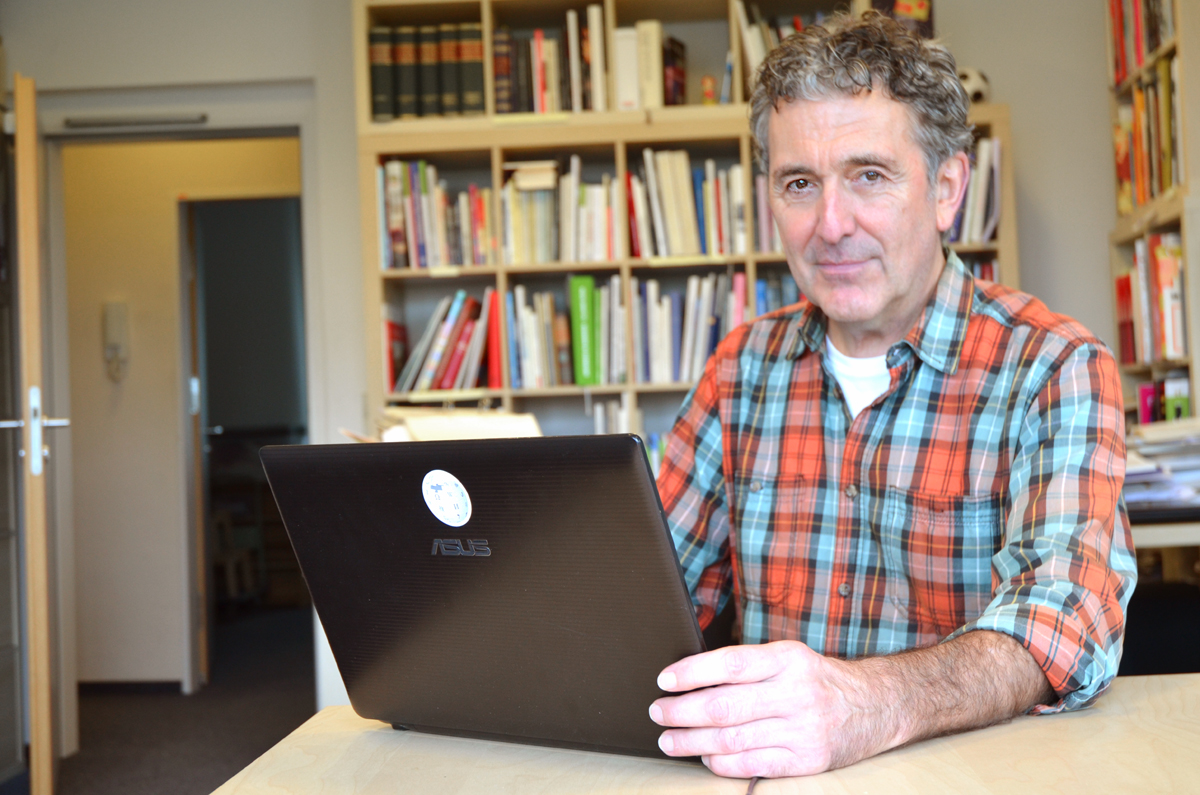 Chansonnier, theater and film actor Bengt Kiene ...